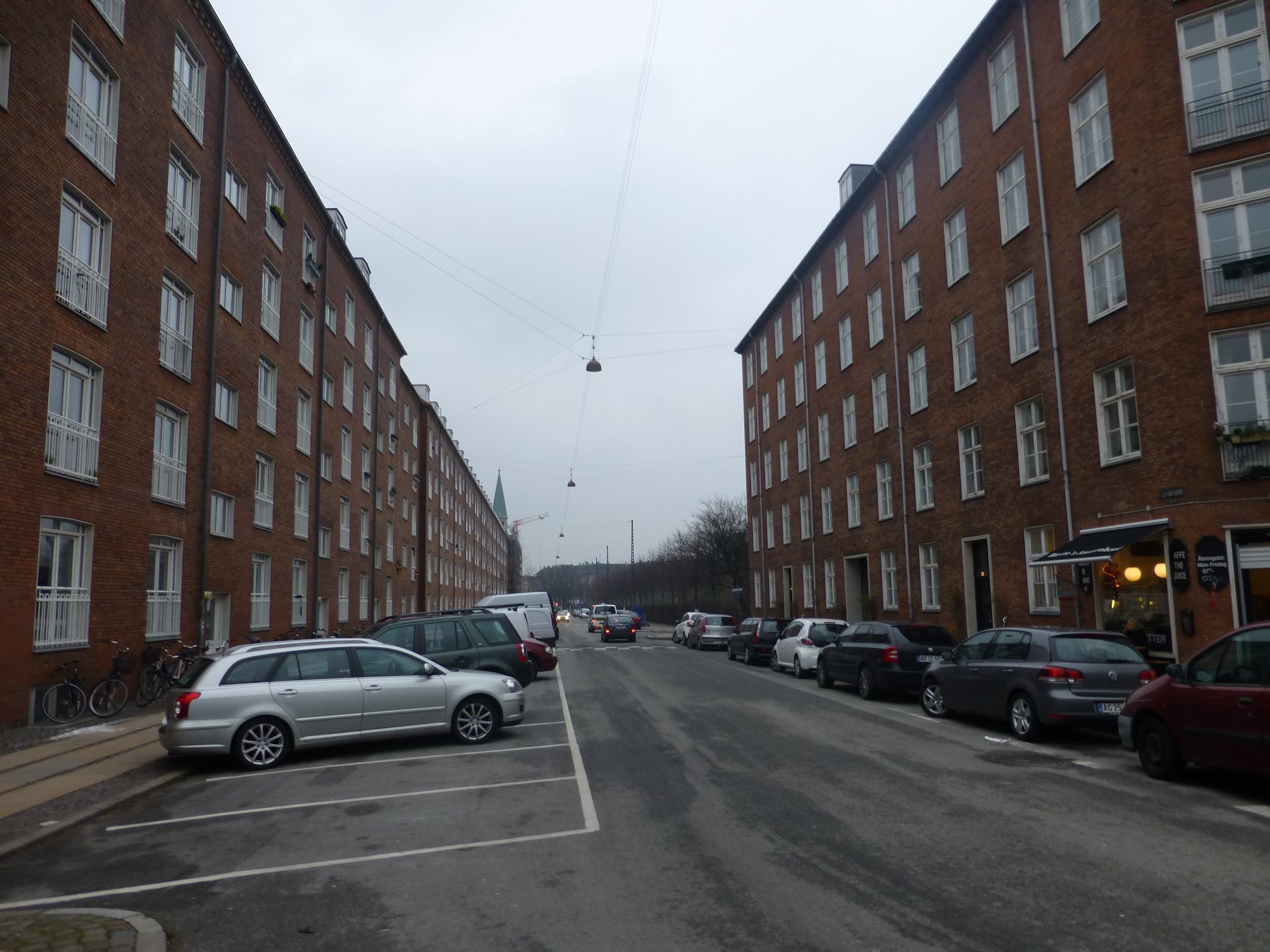 The street Lyrskovgade in Vesterbro in Copenhagen.